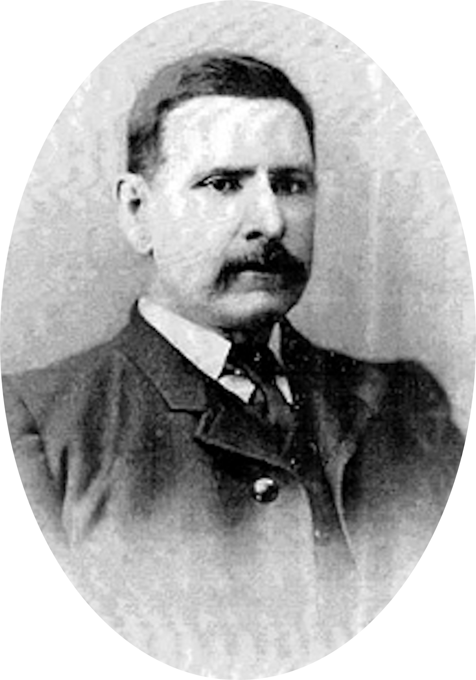 Medal of Honor winner Robert Alexander Reid